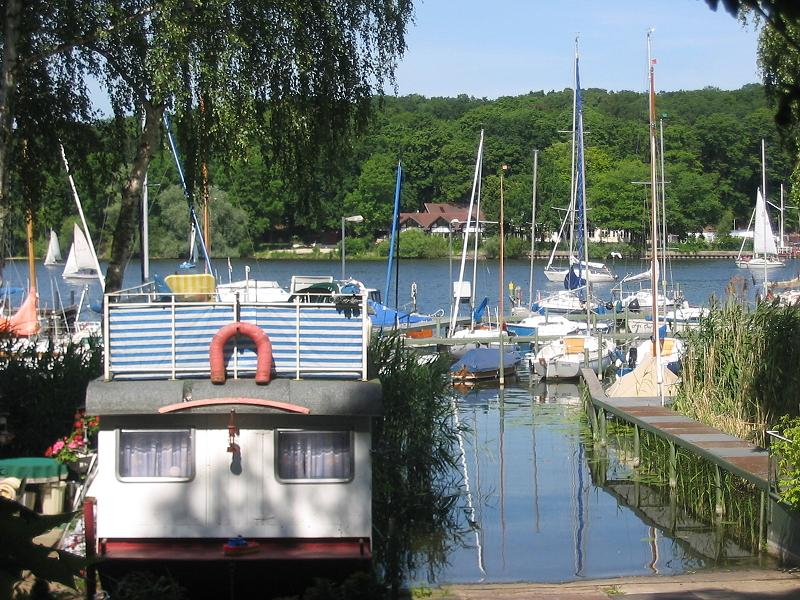 The Stößensee is a lake in Berlin-Wilhelmstadt (Borough Spandau) and Berlin-Westend (Borough Charlottenburg-Wilmersdorf), Germany. The lake is a bay of the river Havel.